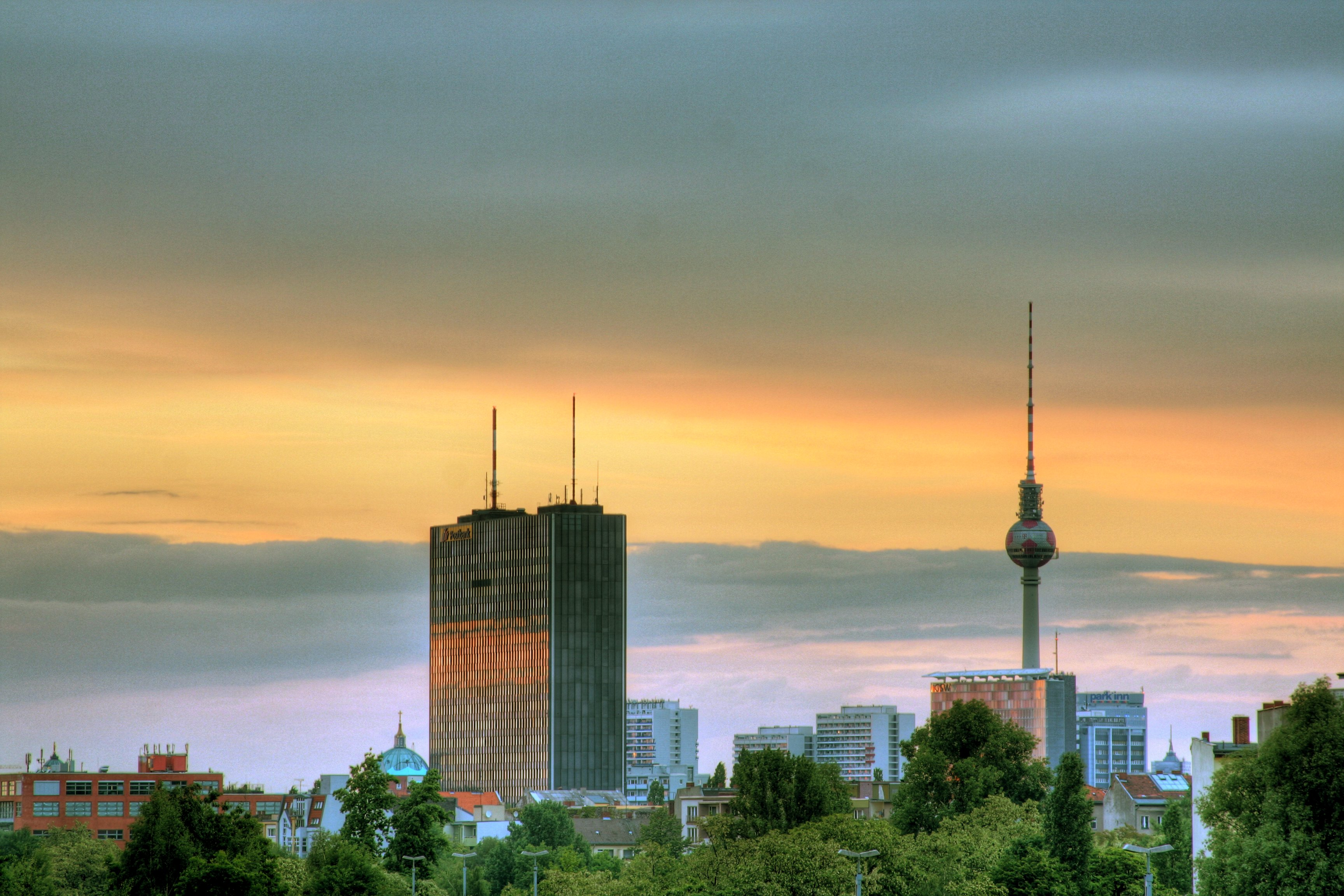 Sunset over Berlin